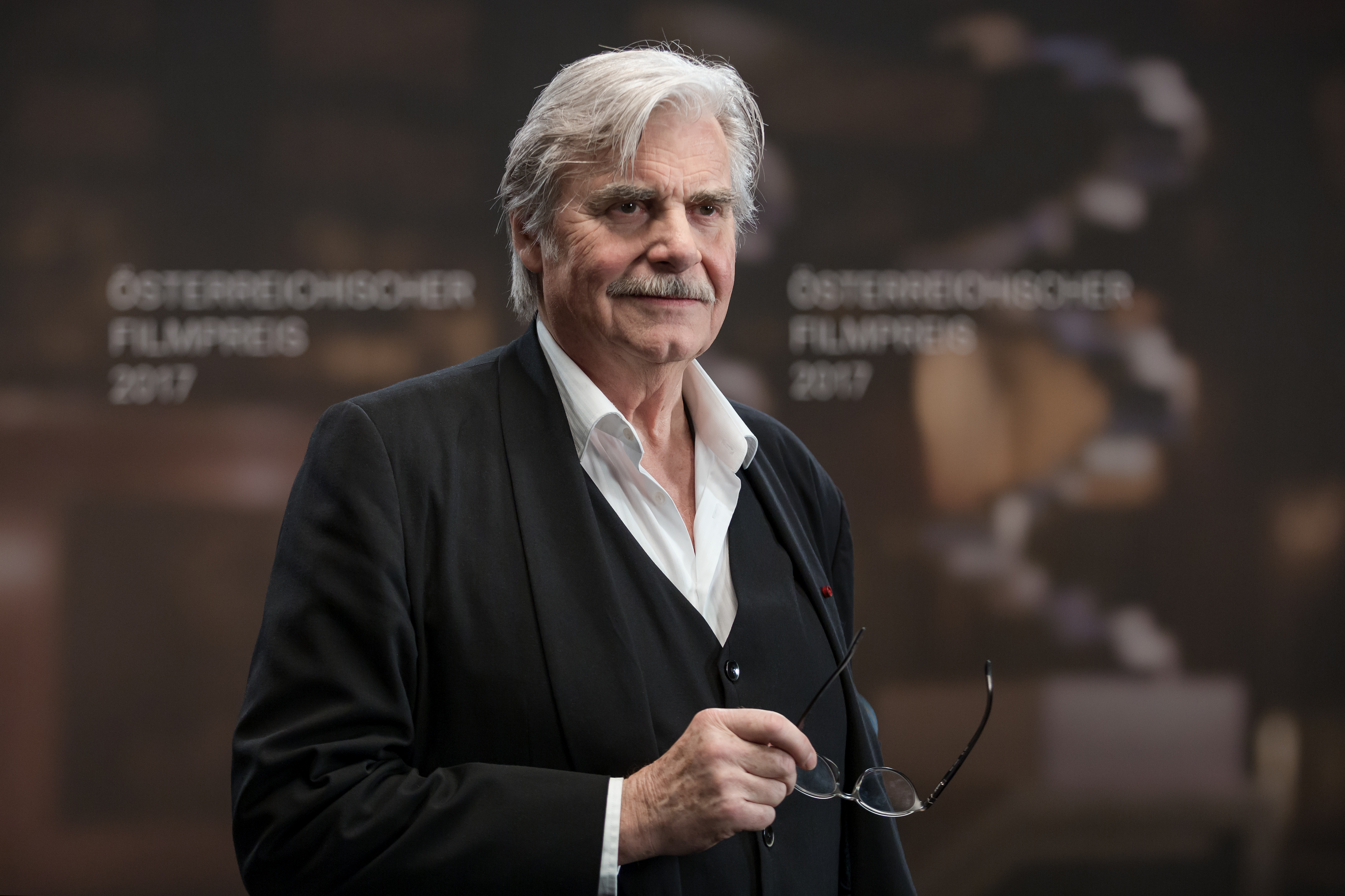 Peter Simonischek at the Austrian Film Awards 2017 (Rathaus, Vienna,Austria).